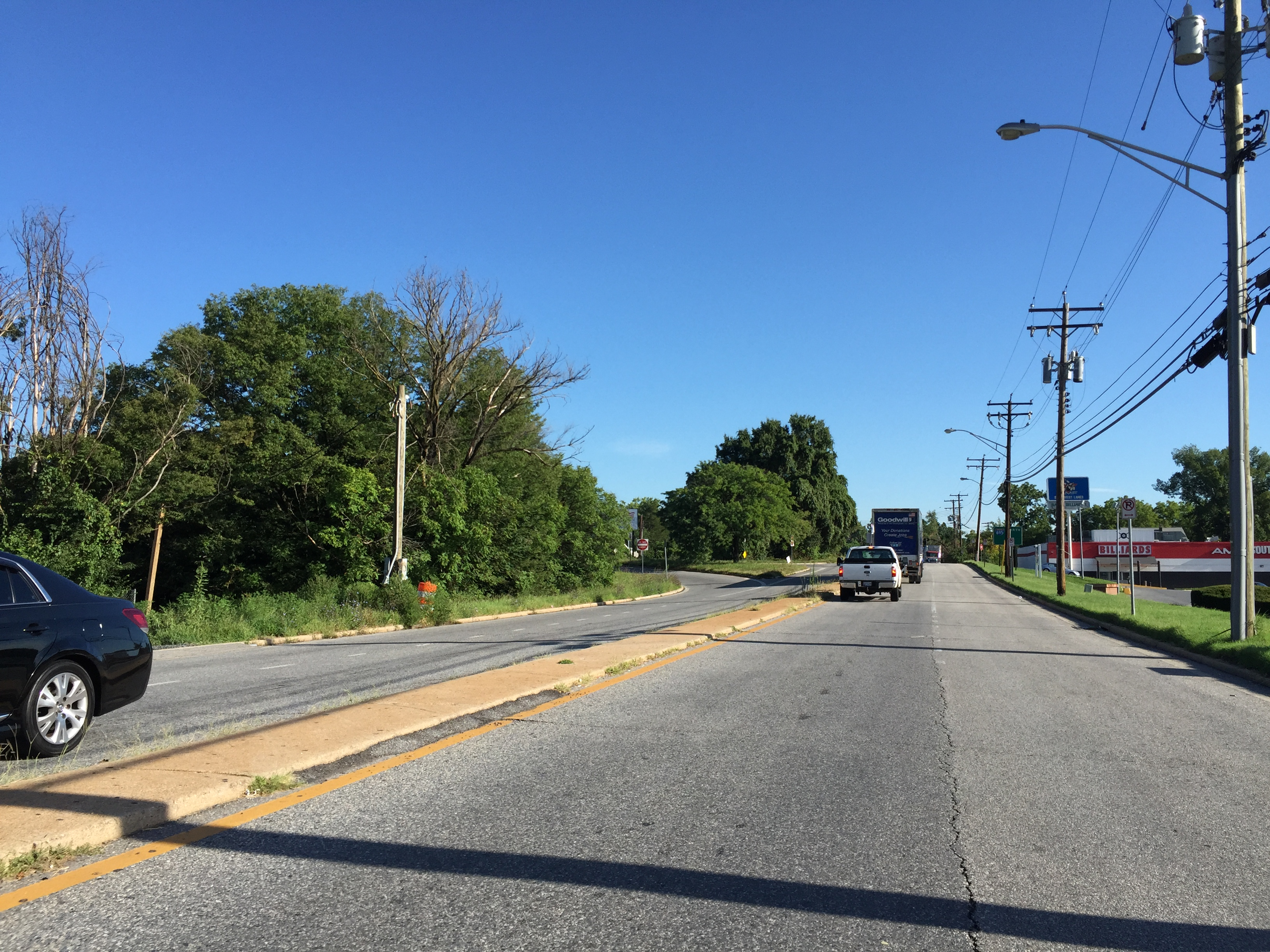 View north along Maryland State Route 969 (Fairview Avenue) at Maryland State Route 168 (Nursery Road) in Linthicum, Anne Arundel County, Maryland